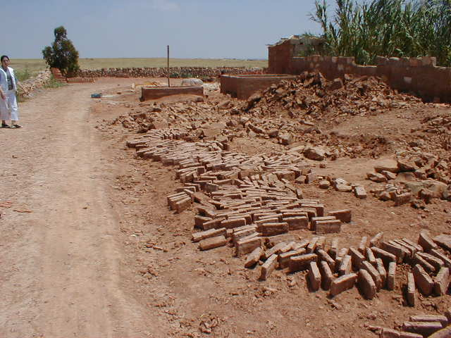 Traditional brick manufacturing in Safi area, Morocco Walon: Fijhaedje di brikes come dinltins a Safi, Marok